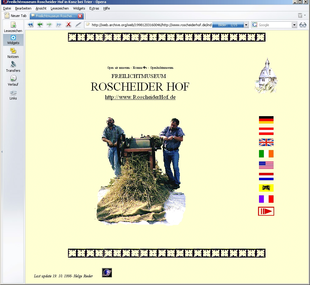 Website of the Roscheider Hof open air museum 1009